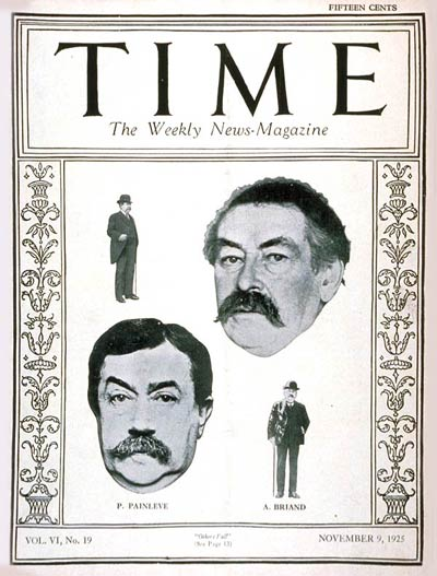 Cover of Time Magazine (November 9, 1925) w/ Paul Painlevé & Aristide Briand